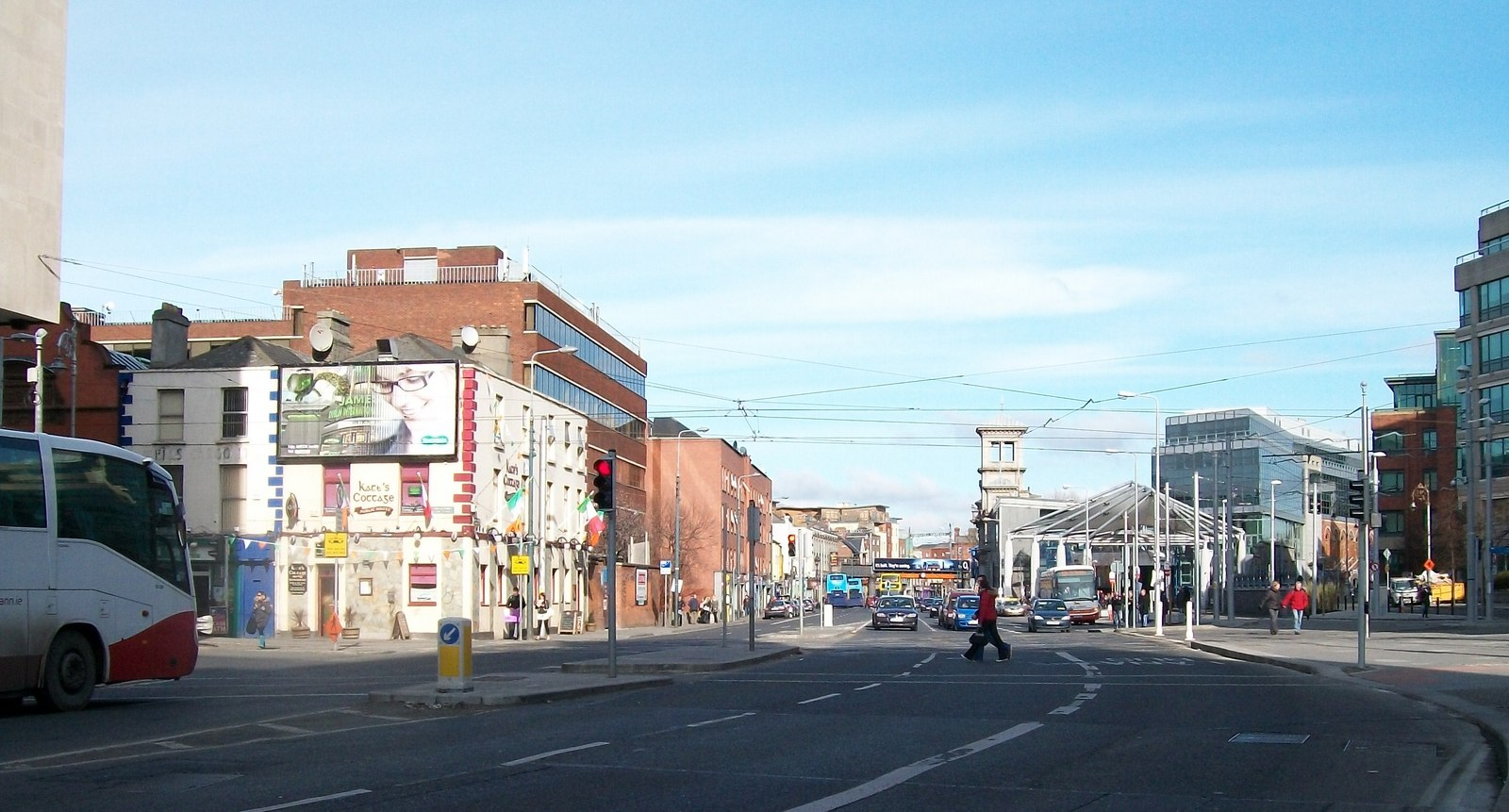 View northwards along Amiens Street The entrance into Store Street can be seen on the left and the ornate Italianate tower of Connolly Station on the right.